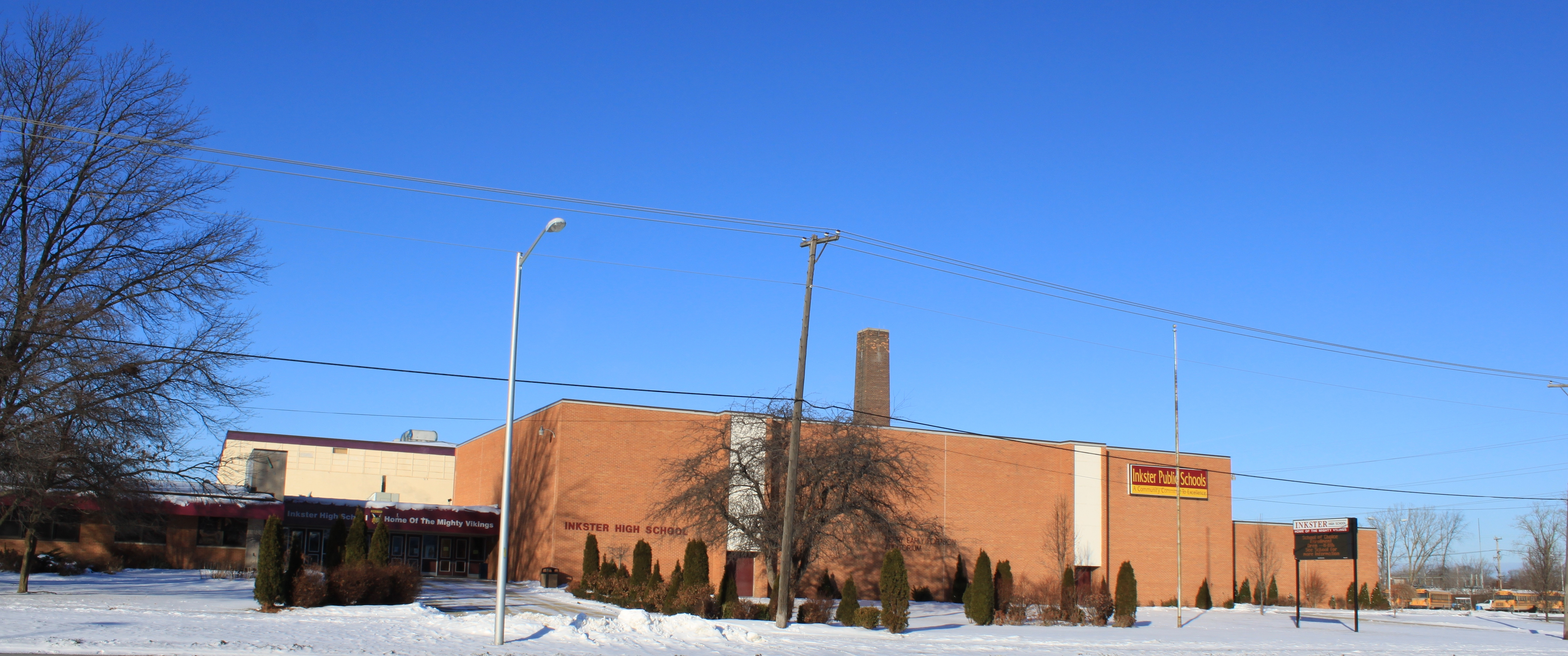 Inkster High School, 3250 Middle Belt Road, Inkster, Michigan